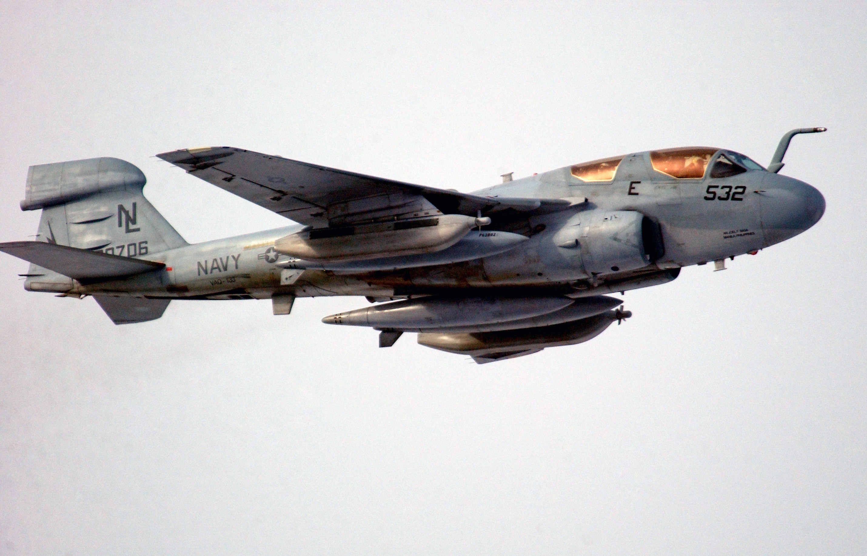 A US Navy (USN) EA-6B Prowler from the Electronic Attack Squadron-133 (VAQ 133), out of Whidbey Island, Washington, takes off from Eielson Air Force Base (AFB), Alaska, in support of exercise NORTHERN EDGE 2002. Note that the aircraft wears the tail code "NL", assigned to the Commander VAQ-Wings, Pacific at NAS Whidbey Island. From 1956 to 1995 this was the tail code of Carrier Air Wing 15 (CVW-15).